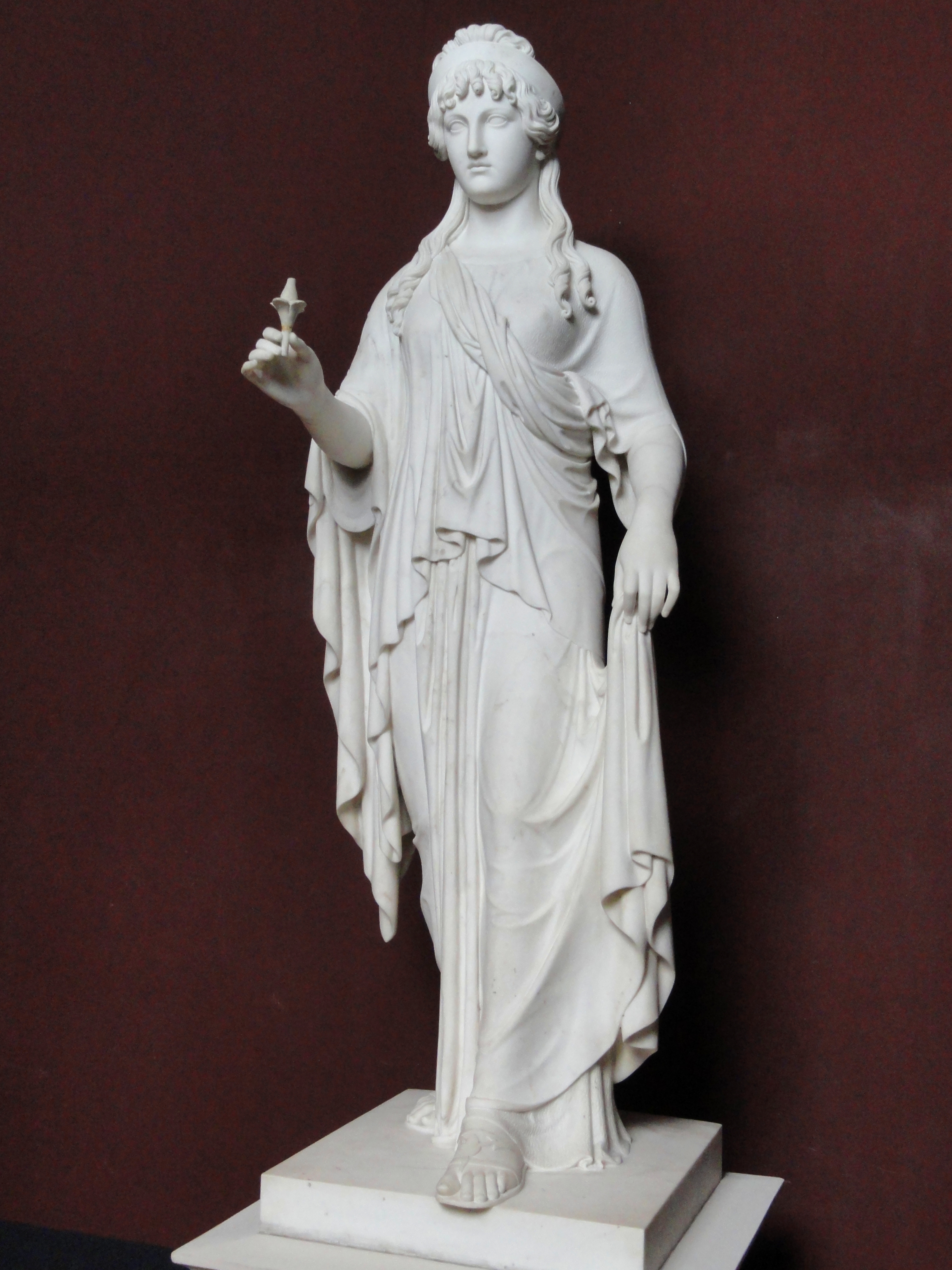 Sculpture by Bertel Thorvaldsen (born c.1770; died 1844), dated 1817, in the Thorvaldsens Museum, Copenhagen, Denmark. This artwork is now in the public domain because the artist died more than 70 years ago.